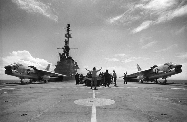 Two Vought F-8 Crusader fighters prepare to launch during carrier qualifications from the U.S. Navy aircraft carrier USS Midway (CVA-41), in 1963. The plane on the left is a F-8D of Marine Fighter Squadron 232 (VMF-232) "Red Devils" (tailcode "WT"), whereas the F-8E to the right belongs to Fighter Squadron 24 (VF-24) "Red Checkertails" of Attack Carrier Air Wing Two (CVW-2) (tailcode "NE"), which was stationed aboard the Midway from 1958 to 1964. The latter aircraft also was the personal plane of the Commander Air Group (CAG) of CVW-2.